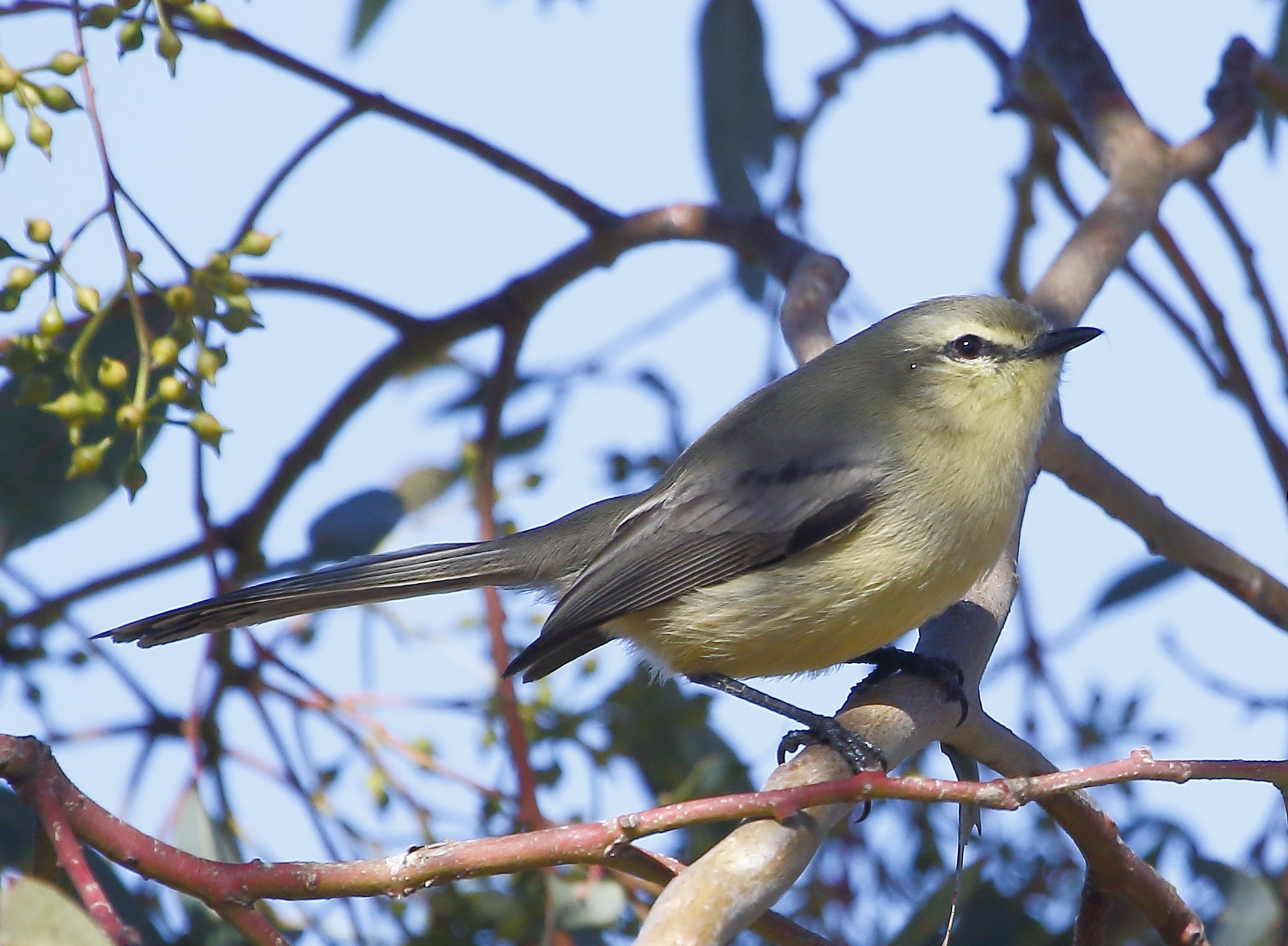 Greater wagtail tyrant at Bosque Telteca Reserve - Lavalle - Mendoza - Argentina